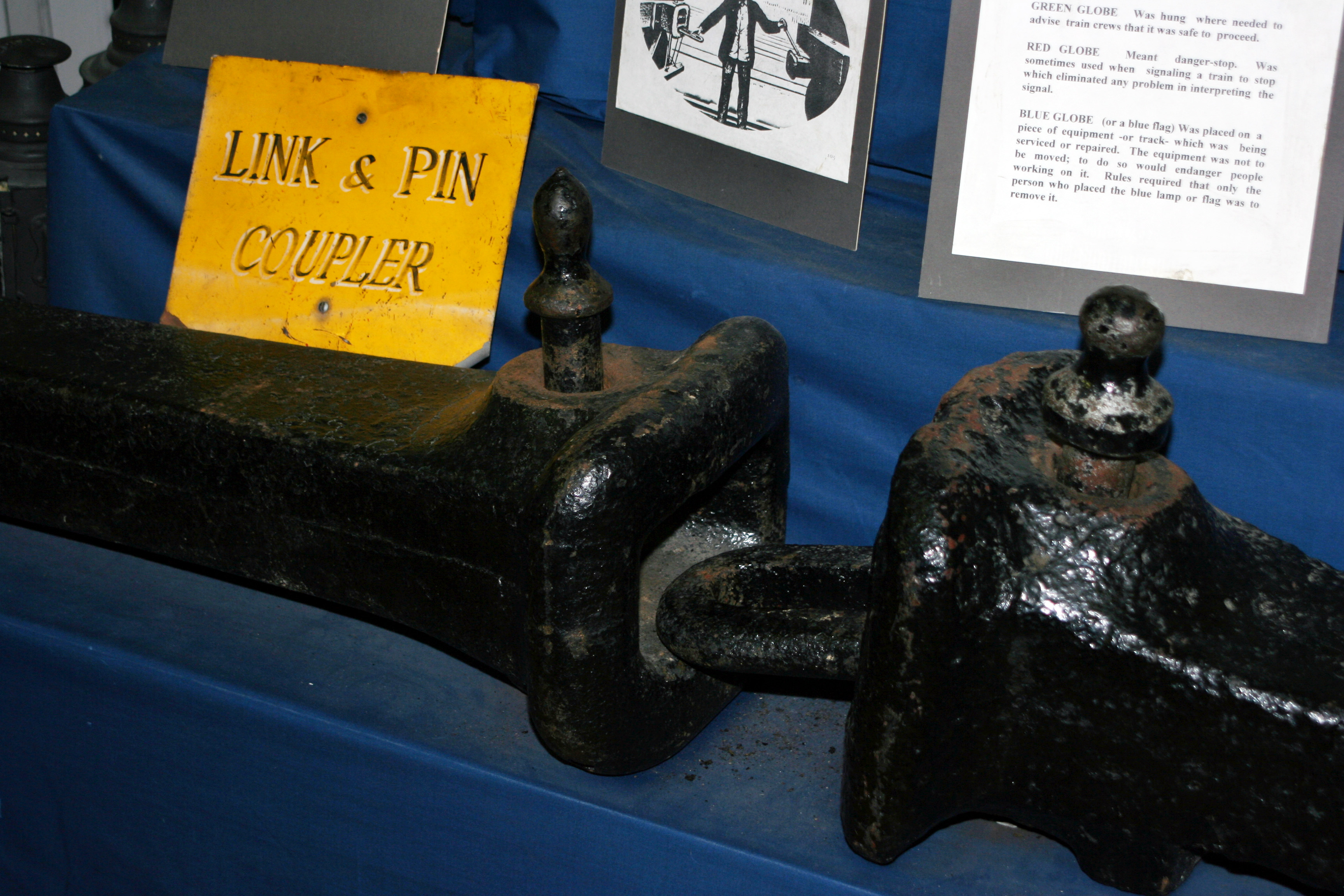 Link and Pin railway coupler on display in the Kentucky Railway Museum.